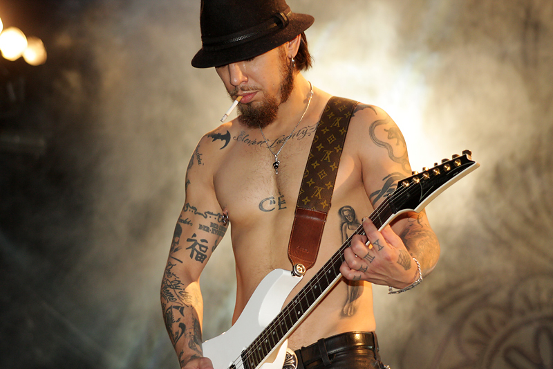 Dave Navarro performing with Jane's Addiction at Maquinária Festival, São Paulo, Brazil on 6 November 2009.